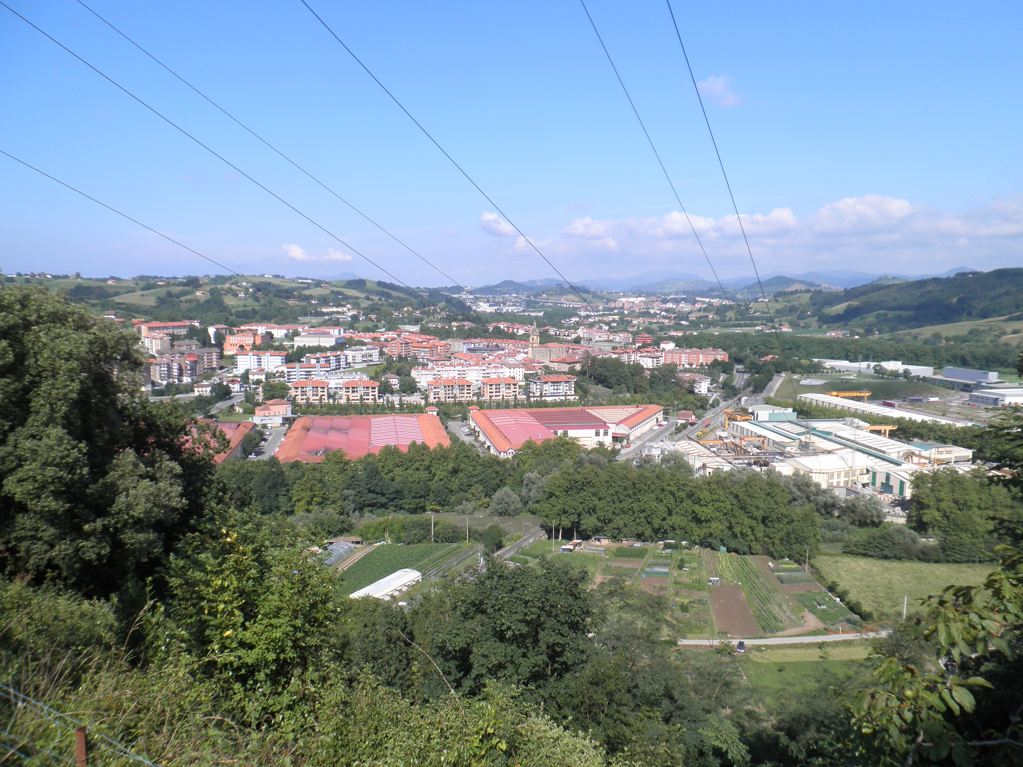 Usurbil view from Urdaiaga